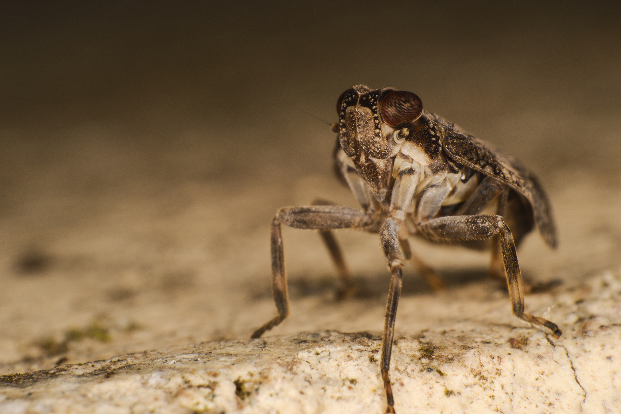 Issus coleoptratus on a rock.